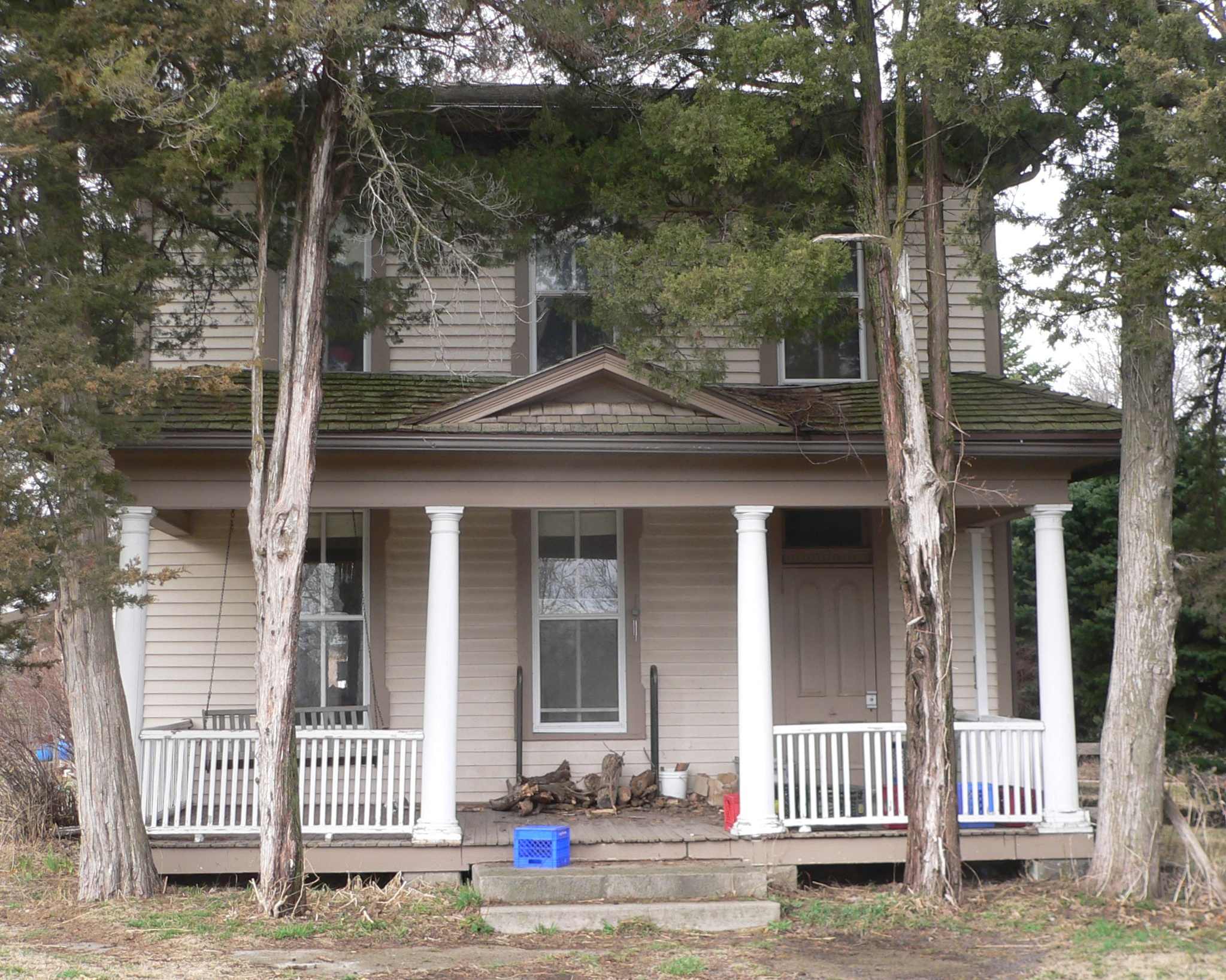 William H. Charlton house, now part of Prairie Hill Learning Center, located at 17705 S. 12th Street in rural Lancaster County, Nebraska. View is from the east.